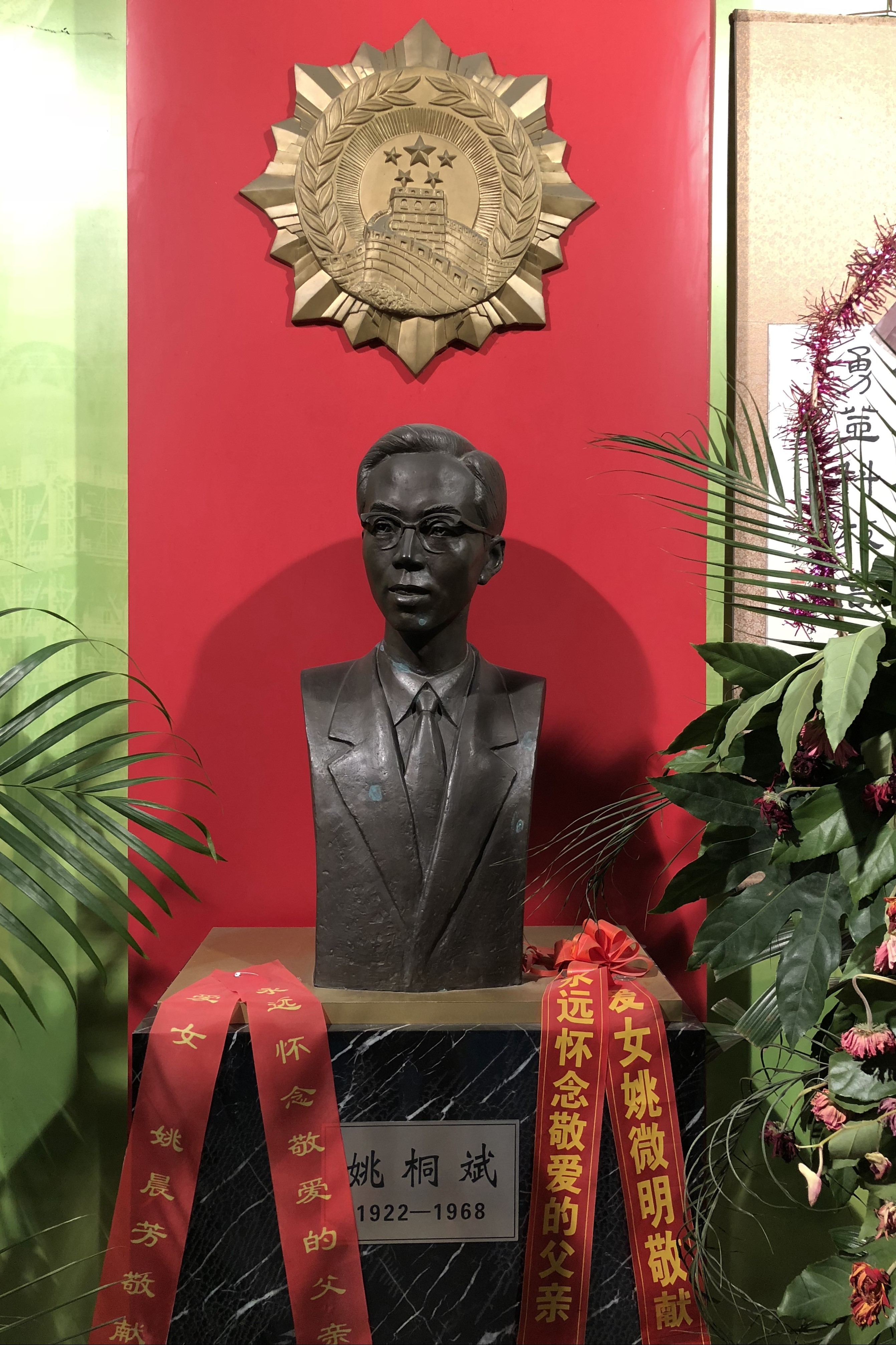 statue of Yao Tongbin